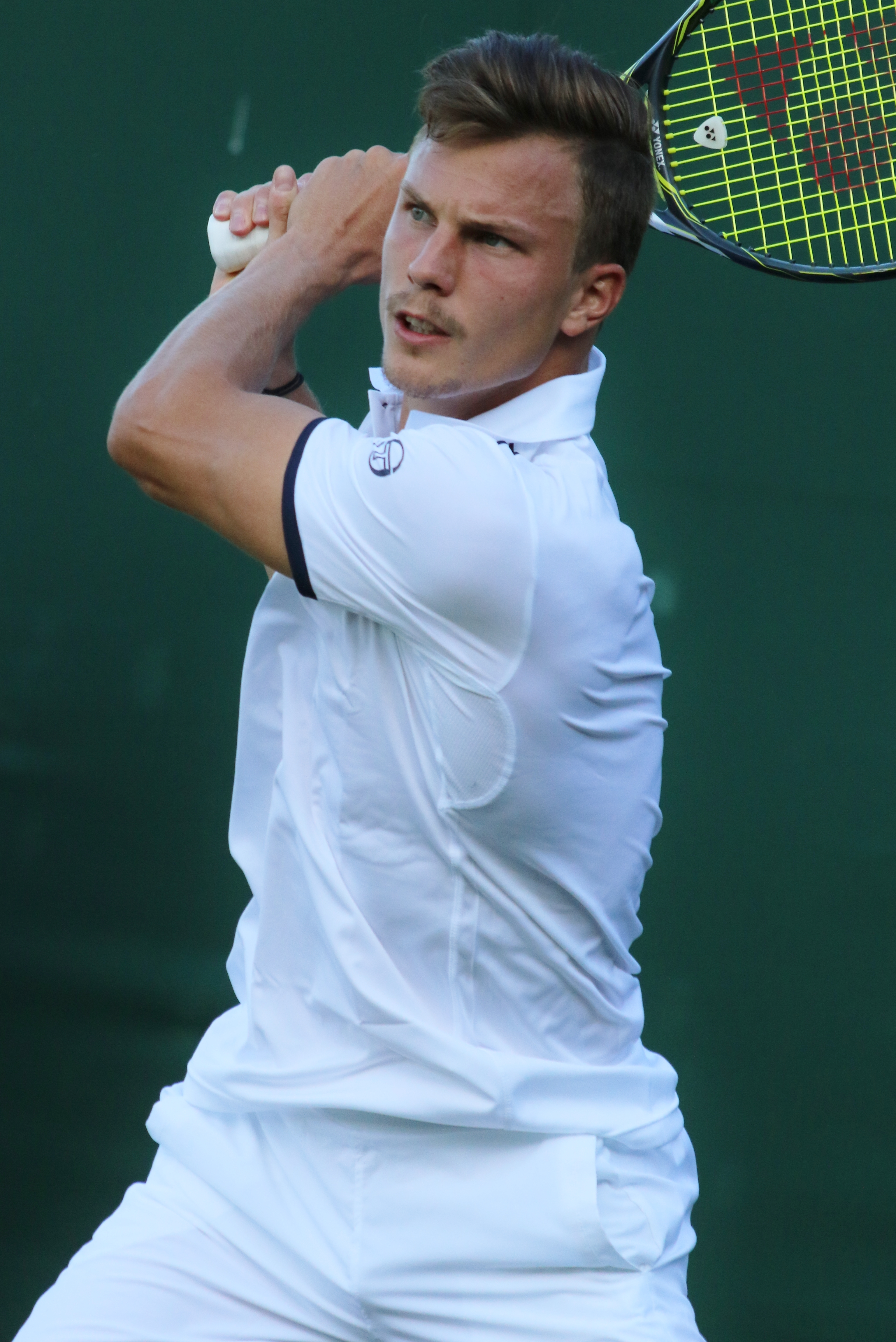 Fucsovics WM17 (12)